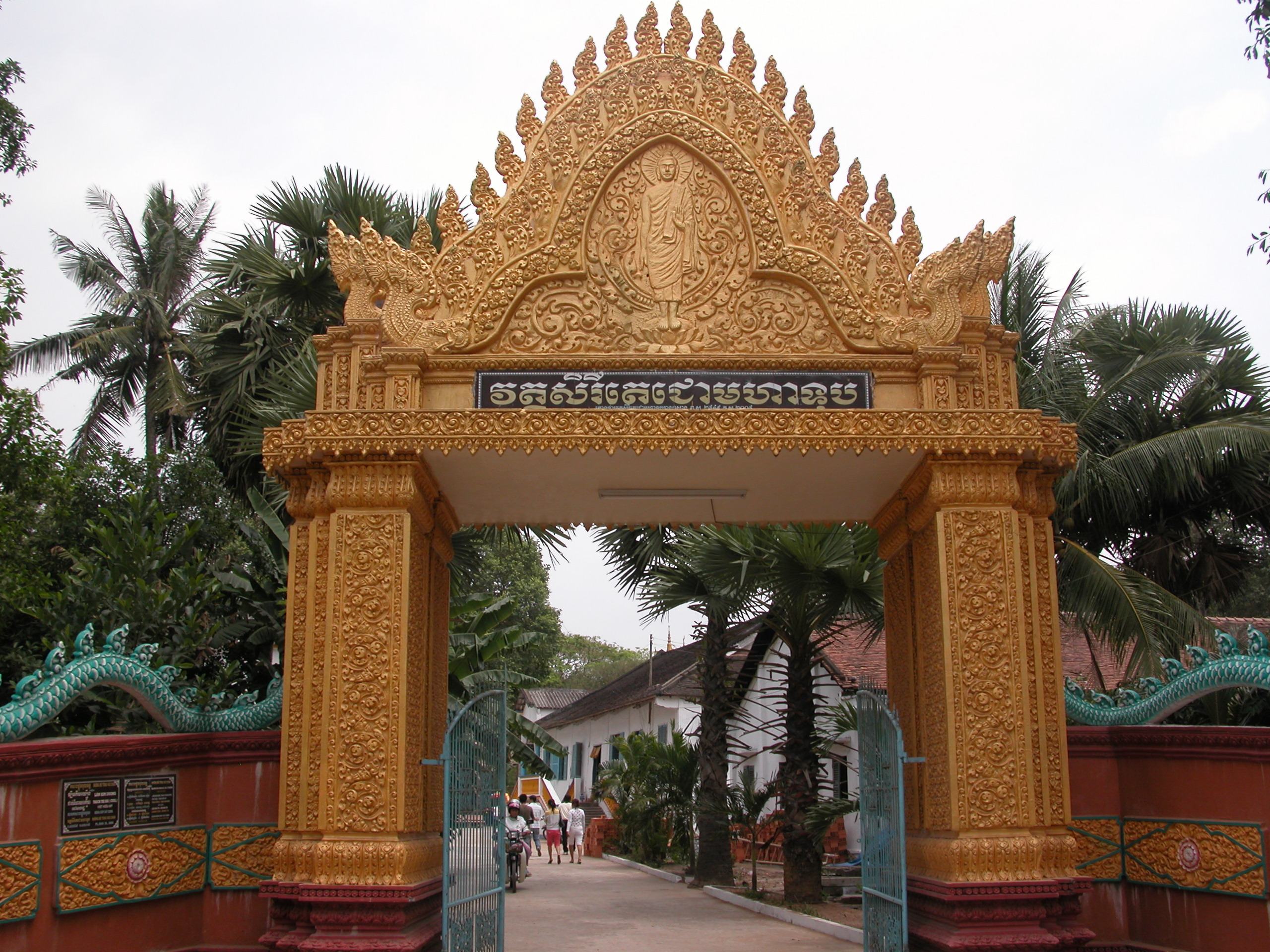 Main entrance of Mahatup Pagoda in Soctrang city.